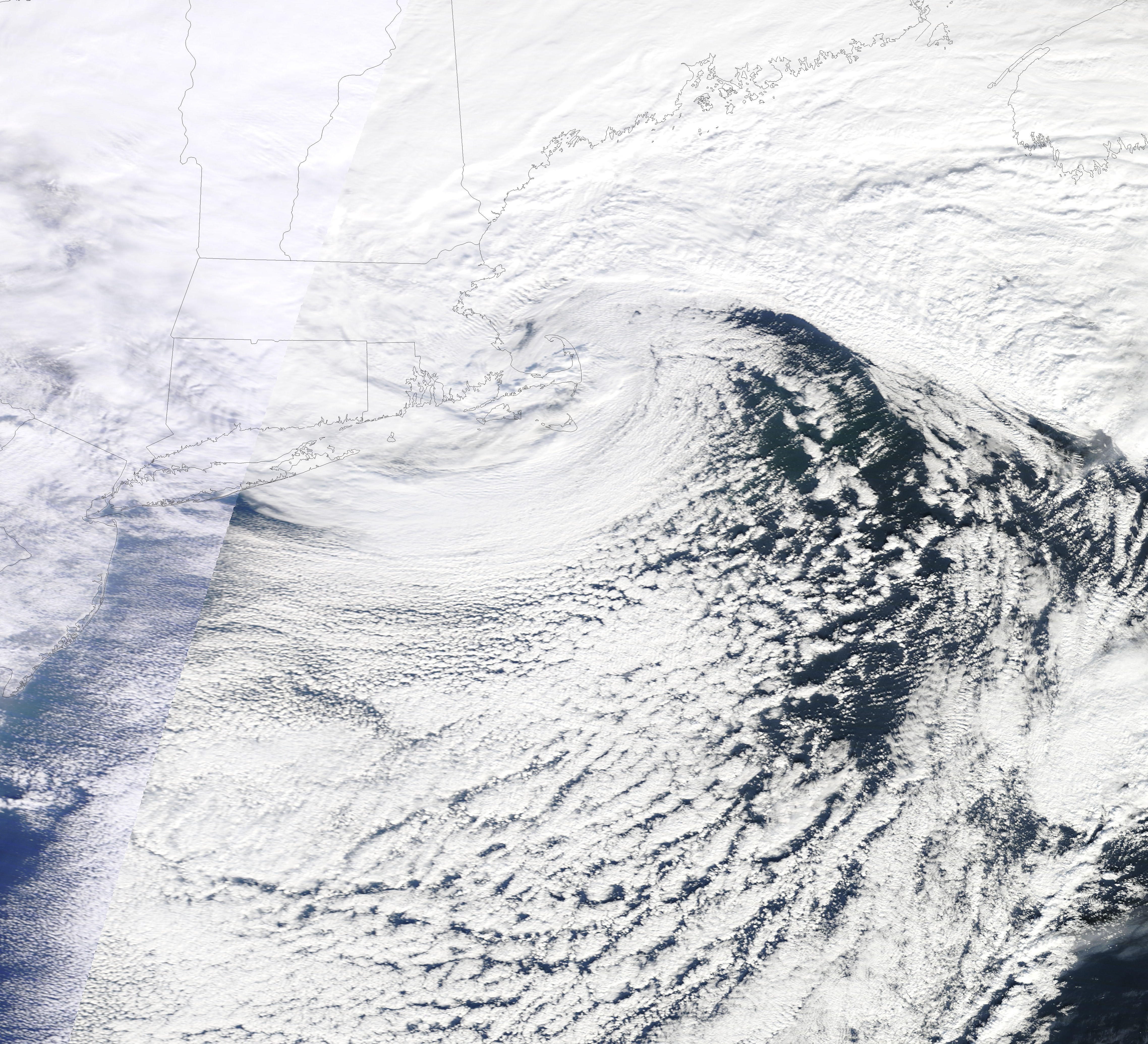 Photo-like image of a winter storm along the U.S. East Coast. The storm had a distinctive comma shape—reminiscent of a hurricane—that forms when air circles around a low-pressure centre (centred over Cape Cod, Massachusetts, in the image).